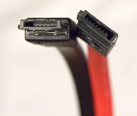 eSATA and SATA connectors